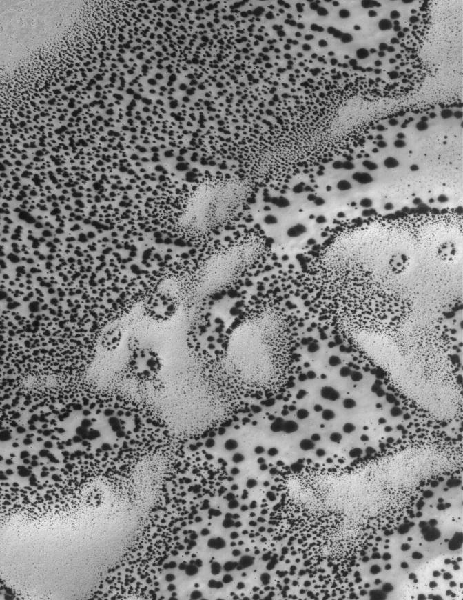 This Mars Global Surveyor (MGS) Mars Orbiter Camera (MOC) image shows dark spots formed in carbon dioxide frost that covers the surfaces of patches of sand in the south polar region. As spring arrived this year in the martian southern hemisphere, so began the annual defrosting process. The fact that sand dunes begin to defrost earlier than other surfaces, and that the defrosting process involves the formation of spots like these, has been known since the earliest days of the MGS mission. Location near: 66.8°S, 15.7°W Mars GloImage width: ~3 km (~1.9 mi) Illumination from: upper left Season: Southern Spring